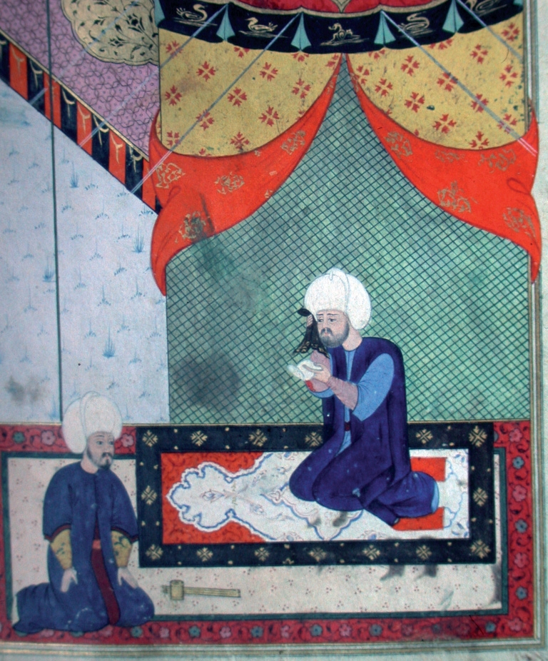 Sokollu Mehmed Pasha and Feridun Ahmed Beg.